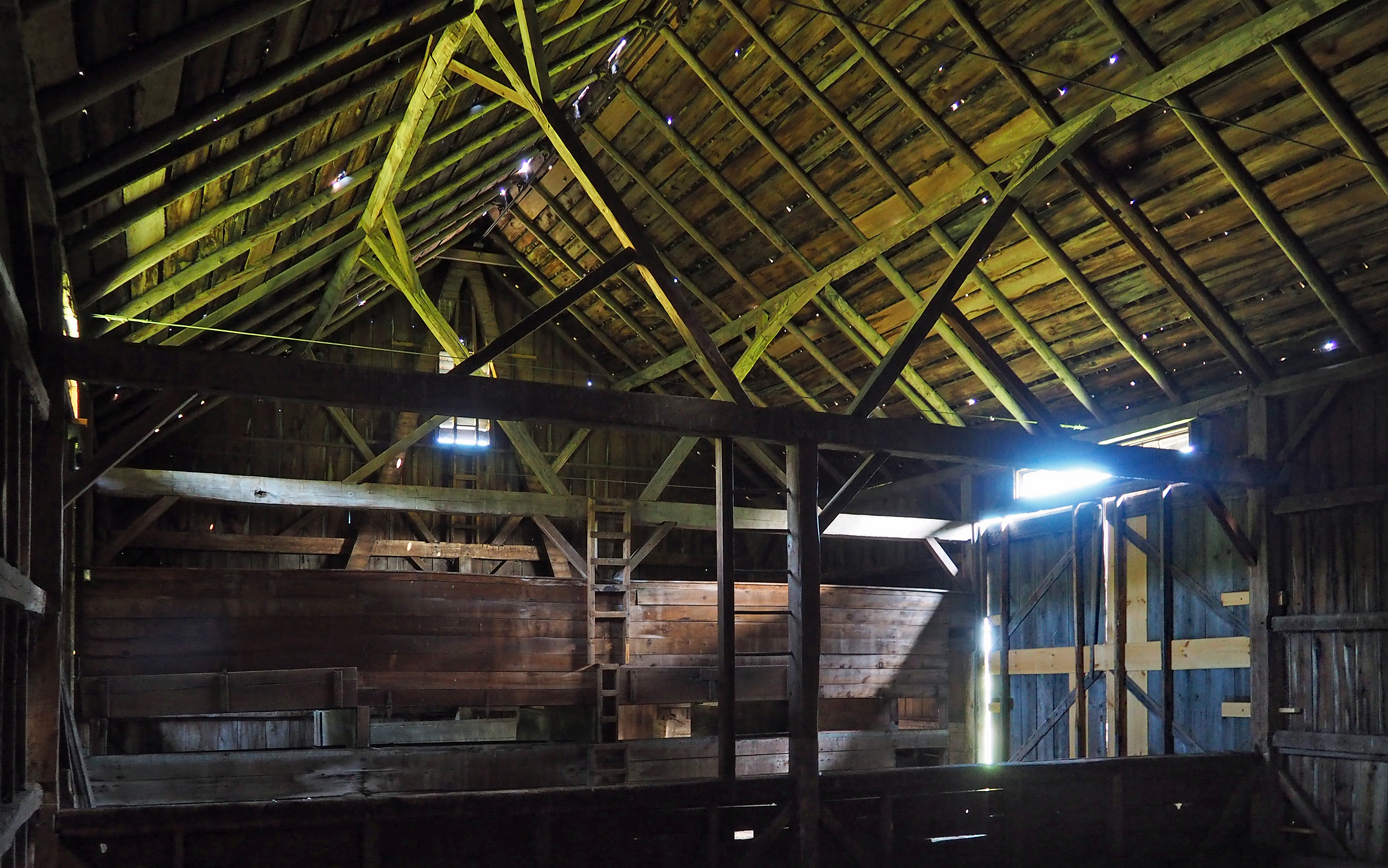 Interior of Peter McDougall Barn, McDougall State Wildlife Management Area, Bellevue Township, Minnesota, USA.